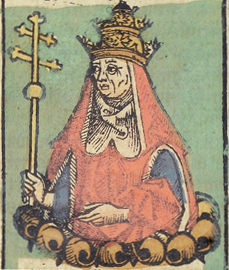 Illustration from the Nuremberg Chronicle (Latin copy in Sao Paulo)